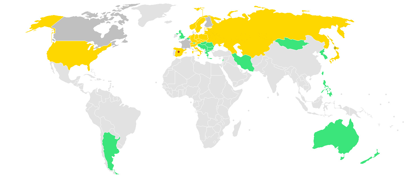 Gold for countries achieving at least one gold medal.Silver for countries achieving at least one silver medal.Bronze for countries achieving at least one bronze medal.Green for countries that didn't get any medal.Gray for countries that did not participate.A yellow circle displays the host city (Sapporo).Red diamonds display countries achieving their first medal ever.